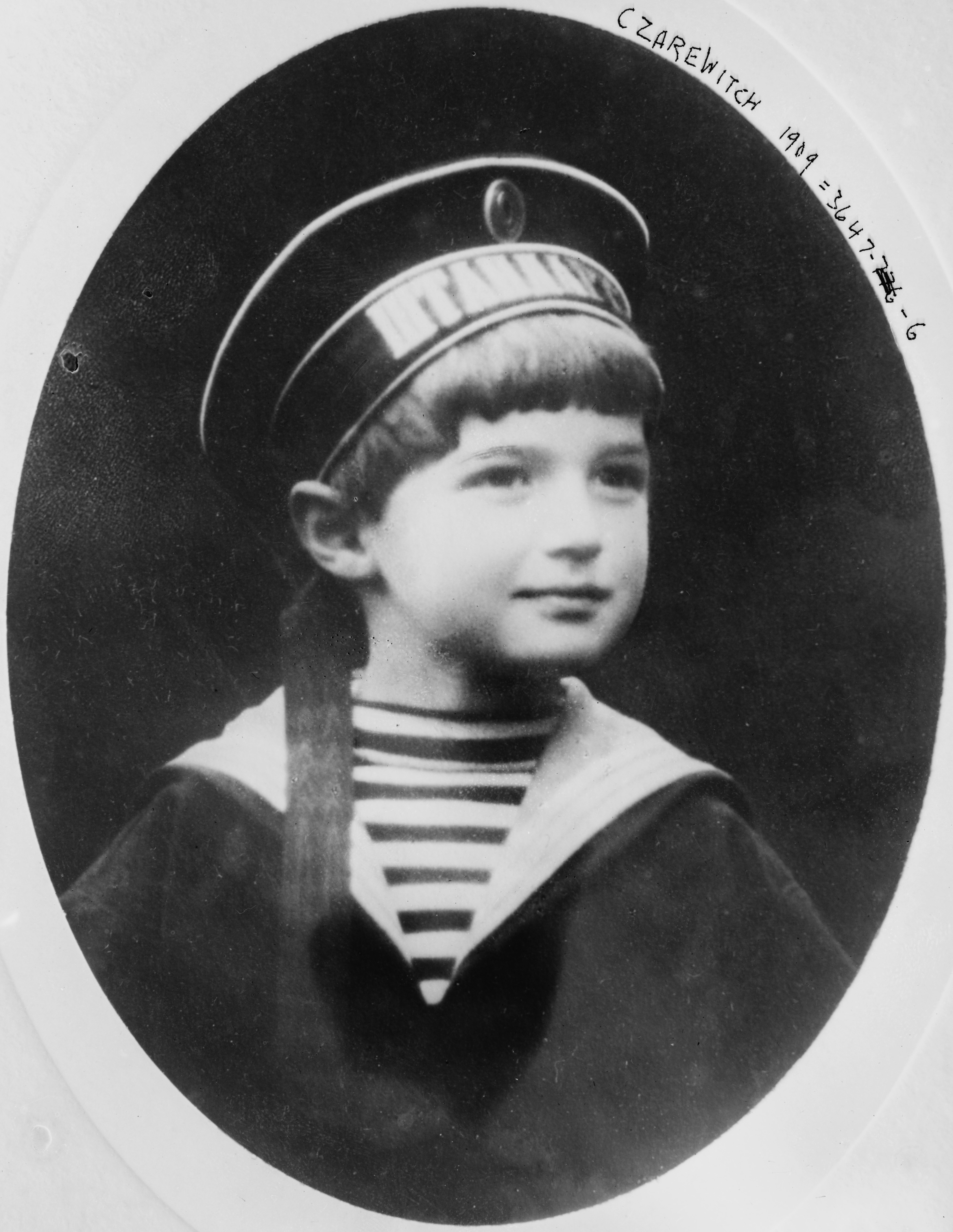 Alexei Nikolaevich, Tsarevich of Russia